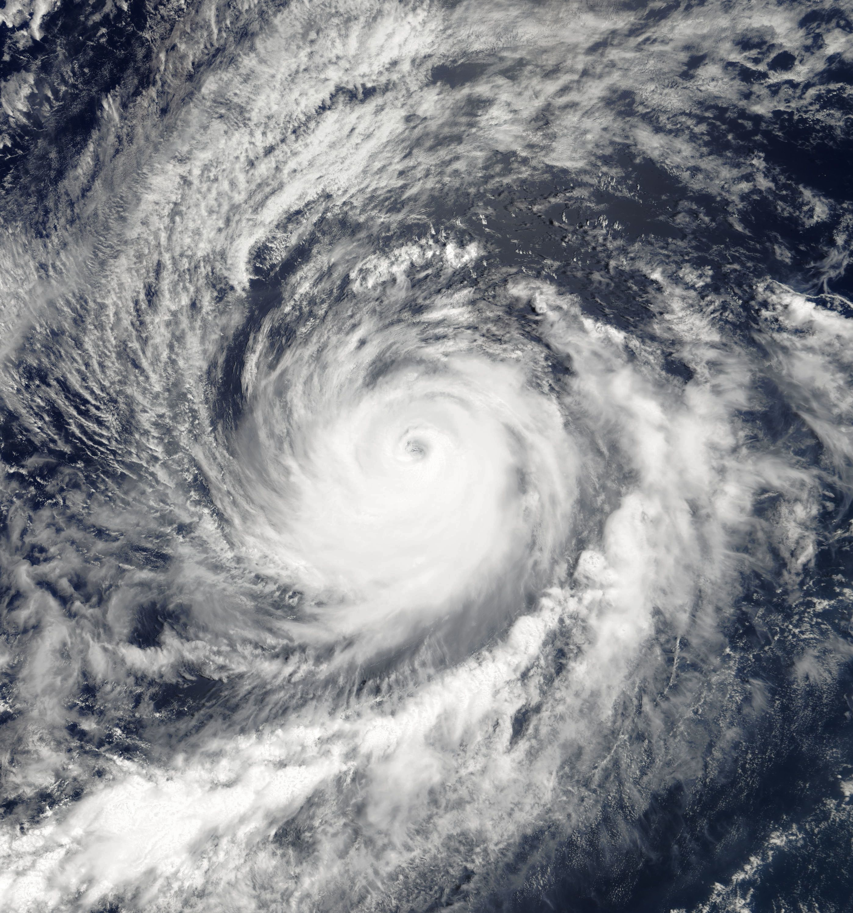 Hurricane Hernan of 2008 at peak intensity.